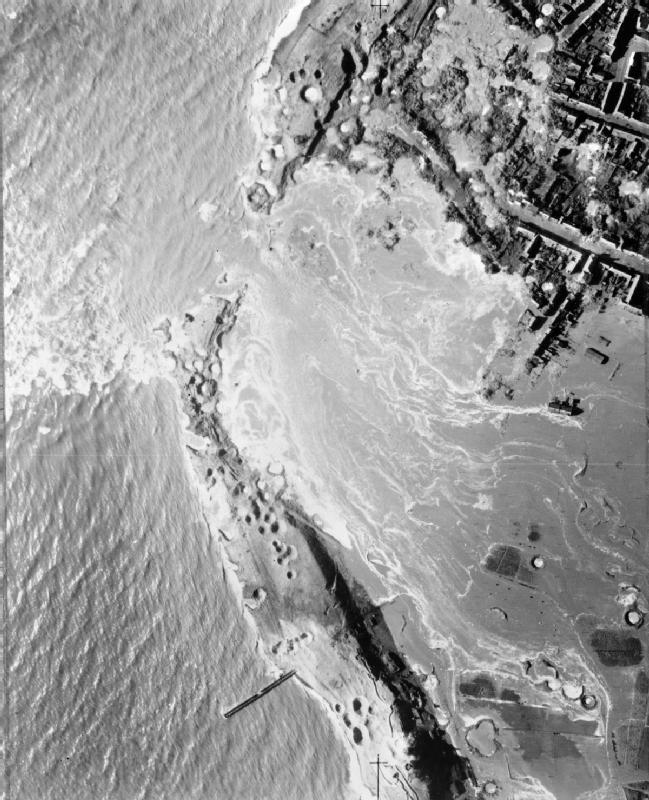 Royal Air Force Bomber Command, 1942-1945. Low-level vertical aerial photograph taken shortly after the daylight attack on the sea-wall of Walcheren Island, Holland, showing a breach in the wall at the most westerly tip of the island, caused by the extremely accurate bombing, being widened by the incoming high tide and inundating the village of Westkapelle (top right).